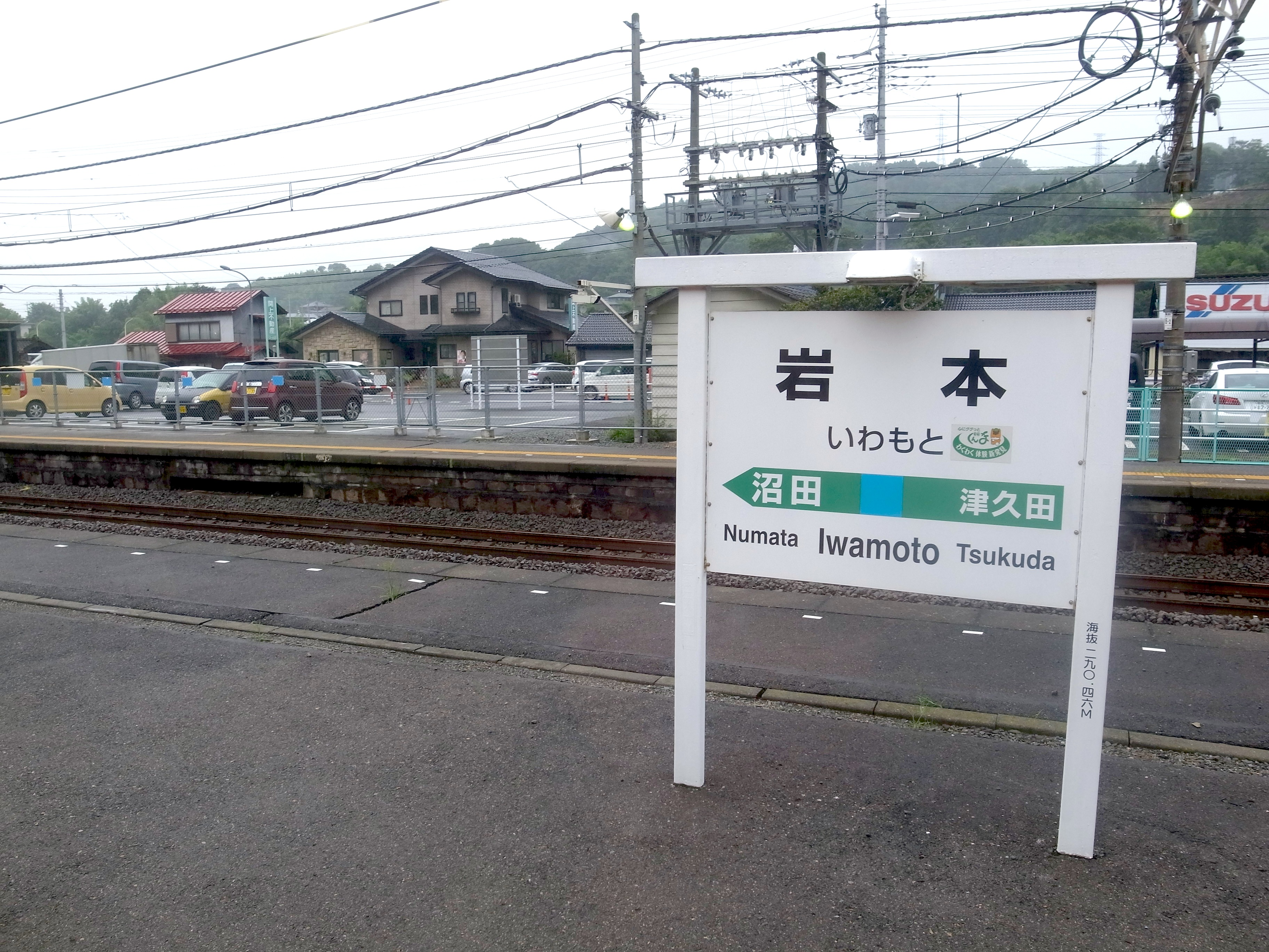 岩本駅 (Iwamoto Station)